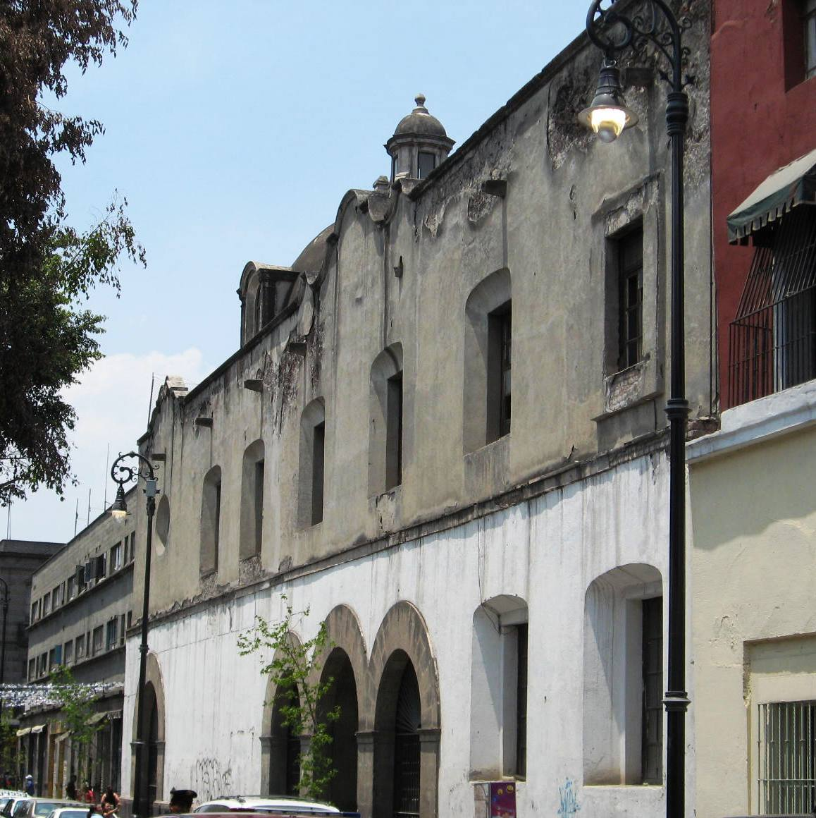 Outside wall facing street of the La Merced Cloister in Mexico City